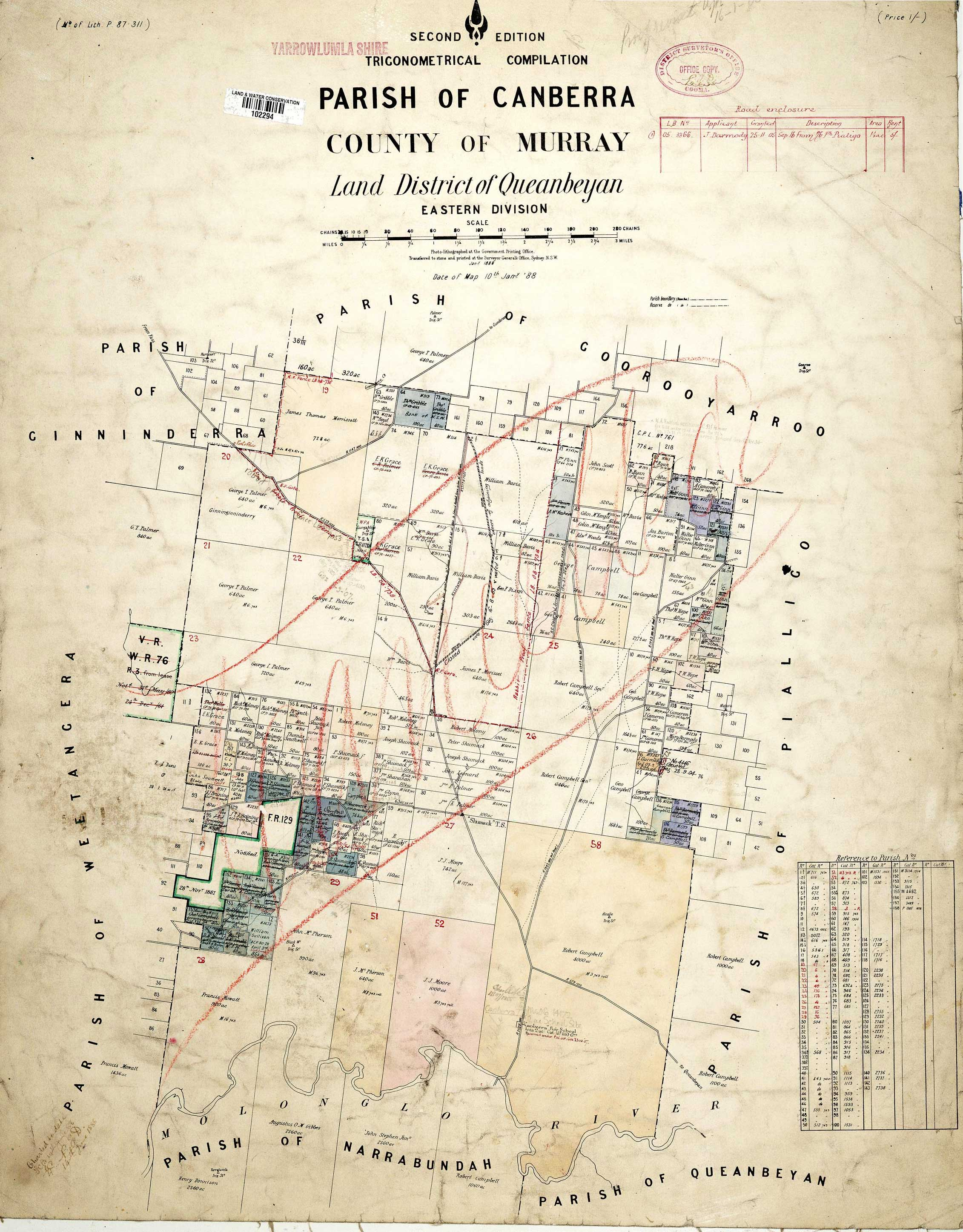 Map of the former parish of Canberra, County of Murray, Land District of Queanbeyan, Eastern Division, New South Wales. The parish includes most of what is now North Canberra including Mt. Ainslie and Black Mountain, which are both marked on the map. The main road running from the top-left to the bottom-right is roughly in the same position as the Barton Highway and Limestone Avenue. Most of the Molonglo River shown at the south of the map is now part of Lake Burley Griffin. Unfortunately it has been marked with red writing over the top "cancelled".